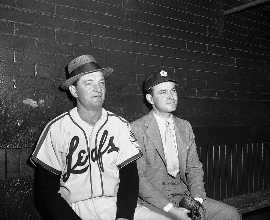 Jack Kent Cooke with baseball player in Toronto Maple Leafs Baseball Club dugout, Maple Leaf Stadium, Toronto, Ontario, Canada